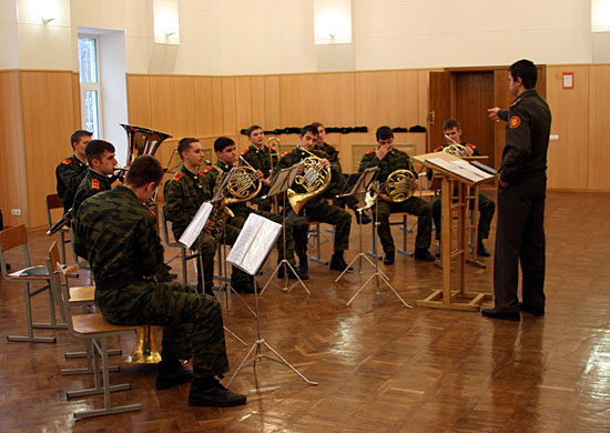 The marching band of the MsVMU (Moscow military music school)